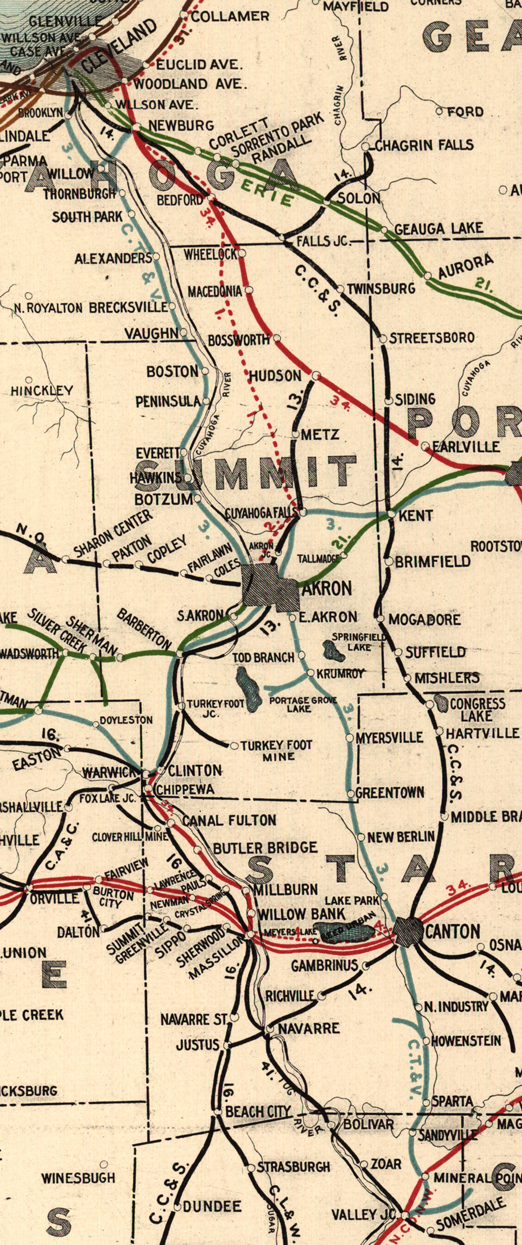 1898 map depicting the route of the Cleveland, Terminal and Valley Railwai (formerly the Valley Railway) in the state of Ohio in the United States.